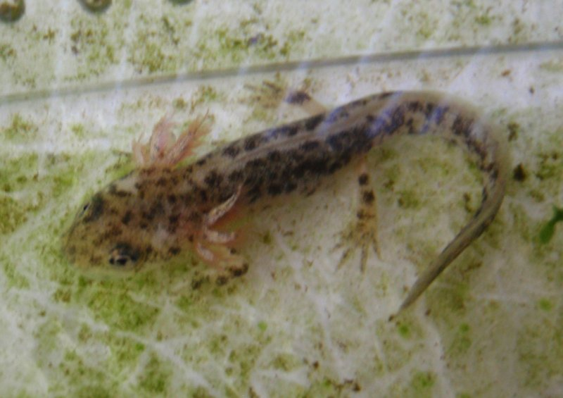 Neurergus kaiseri larva